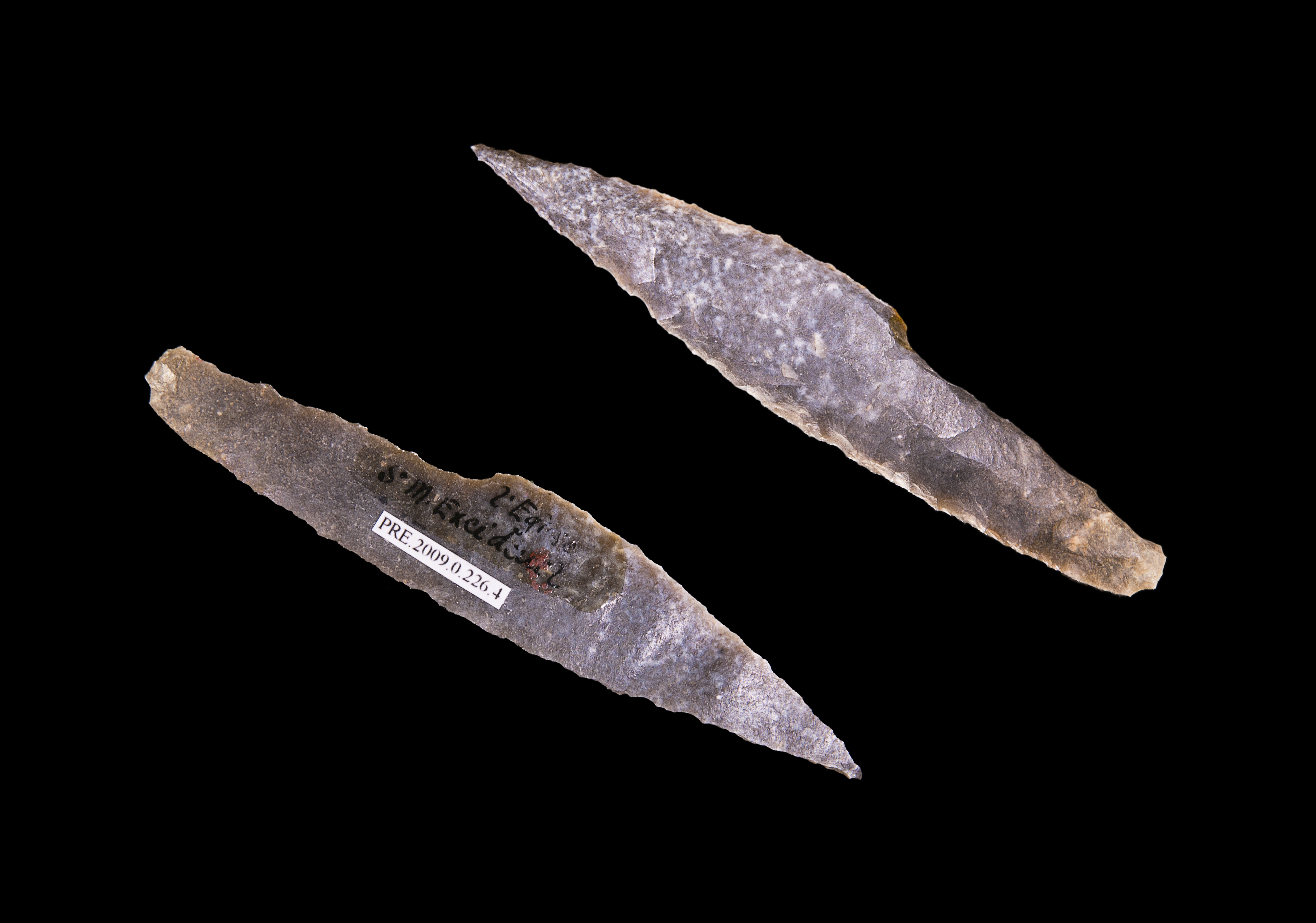 Side notched point - Different views of the same specimen.